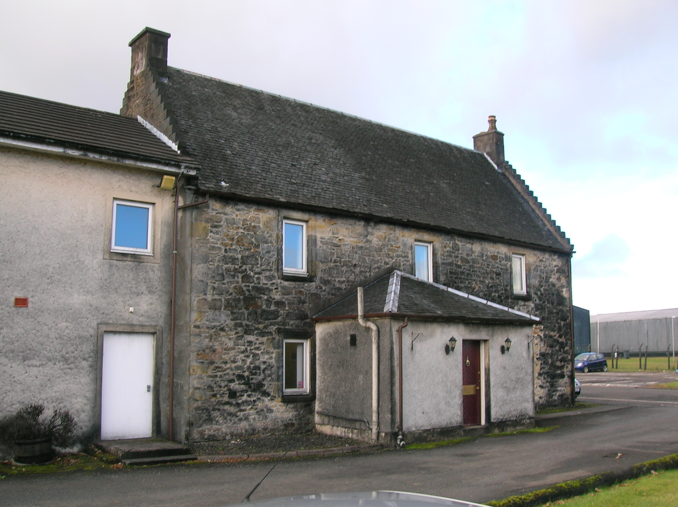 The frontage of Willowyard House, Beith, North Ayrshire, Scotland.